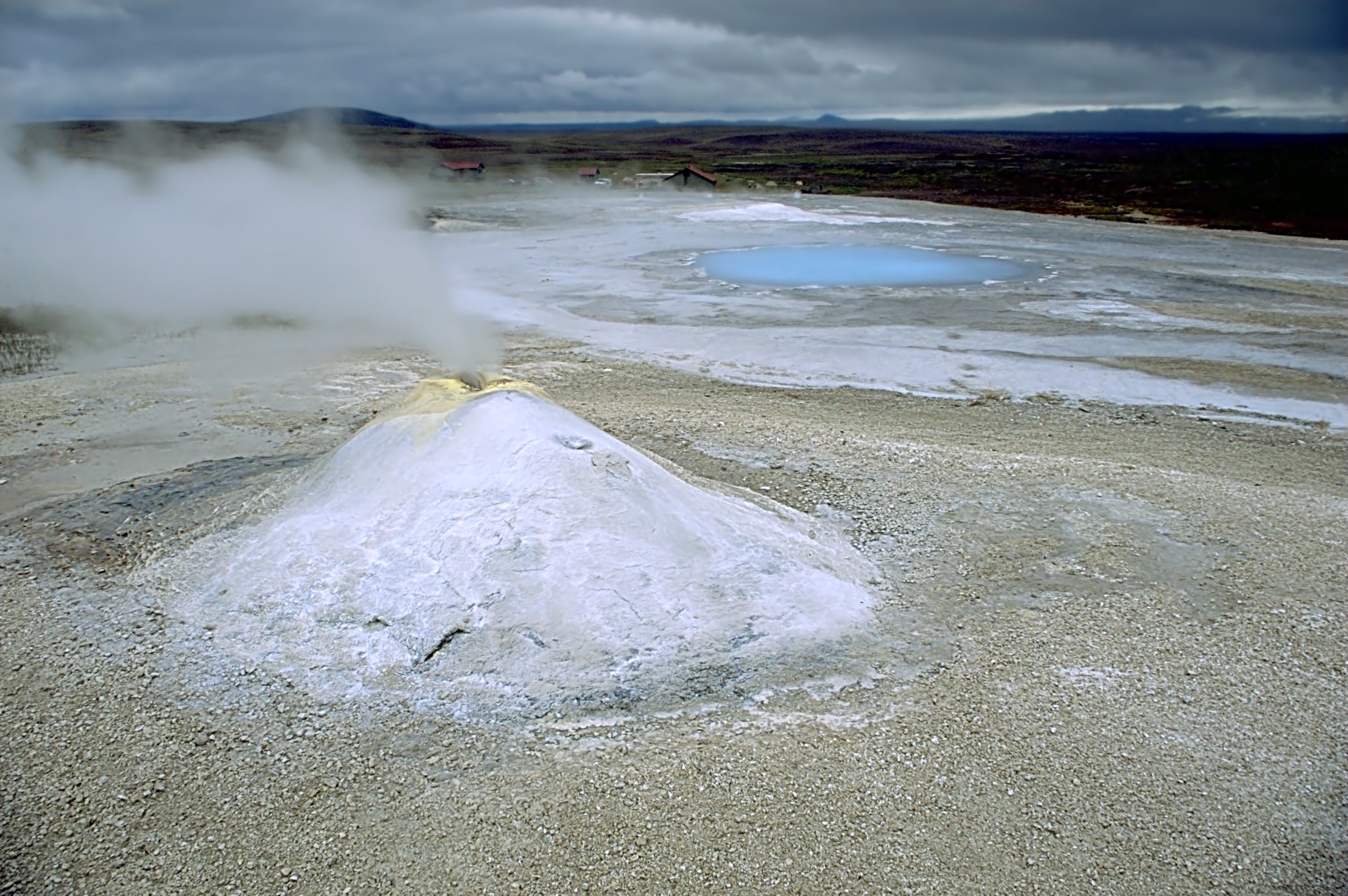 Hot springs in Hveravellir, Island Photo was taken using the following technique: Film: Fuji Velvia Lens: 28-80 Filter: none Body: Minolta 600si Support: Gitzo Monotrek Image with Information in English Bild mit Informationen auf Deutsch